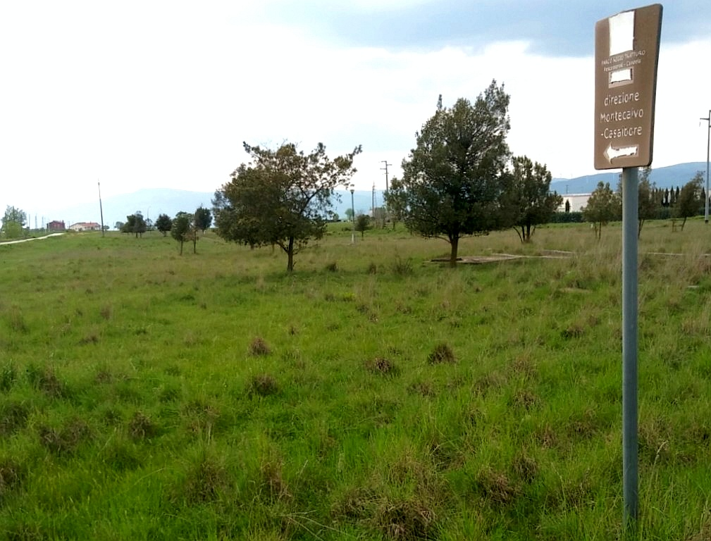 Royal Tratturo over Camporeale highlands near Ariano Irpino, Italy